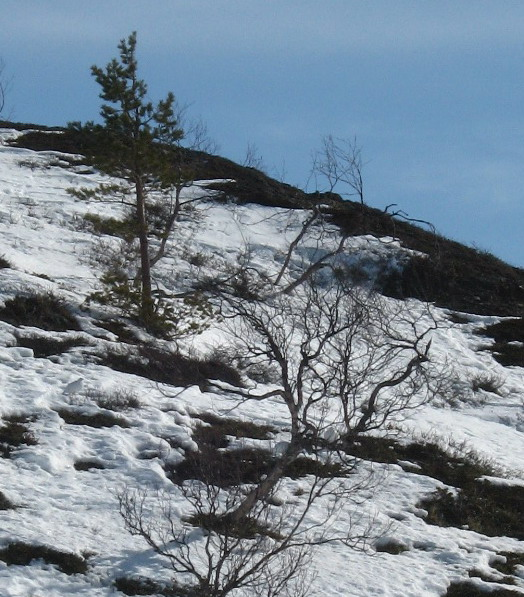 Three Willow grouses, Pallas-Yllästunturi National Park, Enontekiö, Finland